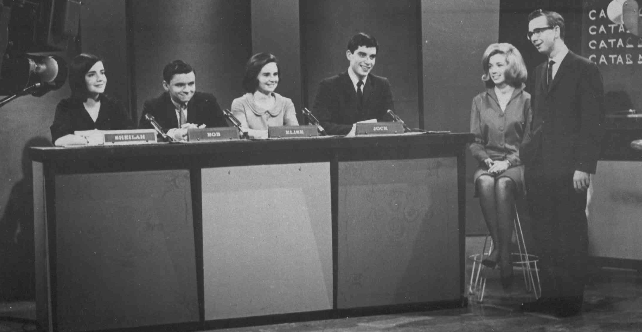 Panelists from CFPL Television game show "Take Your Choice" Sheilah White, Bob Wood, Elise Jenkins, Jock McKeen, Linda Greenwood, with host Dave Wilson